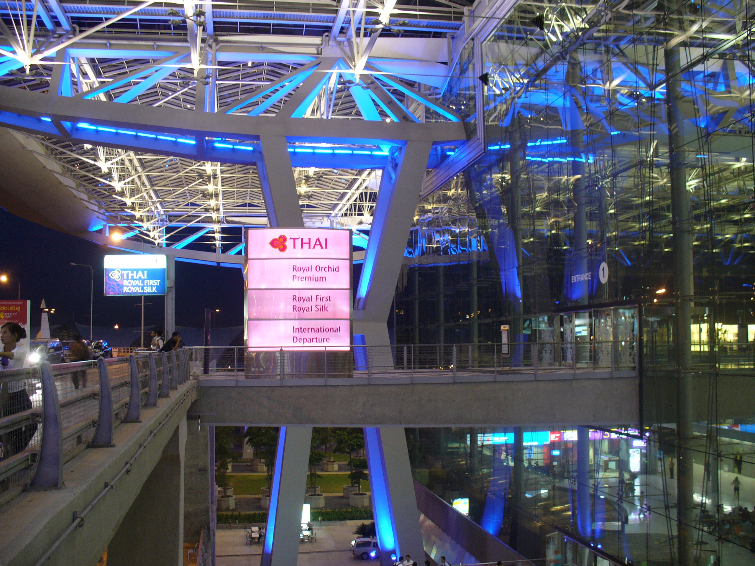 Suvarnabhumi International Airport